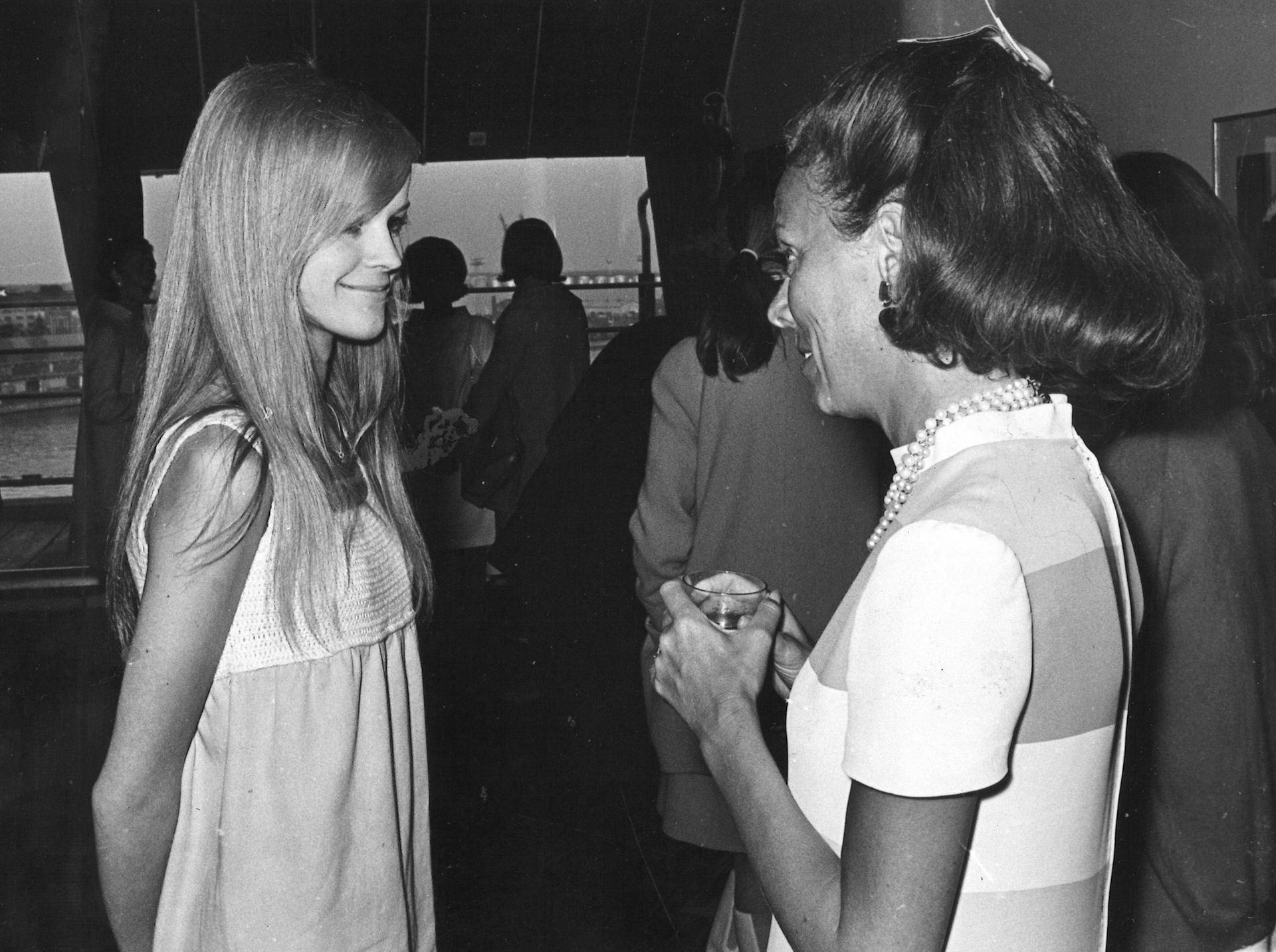 Photograph of the American model agency executive Eileen Ford (1922–2014) here discussing with a Finnish model Ritva Haikola (left) in Finland.